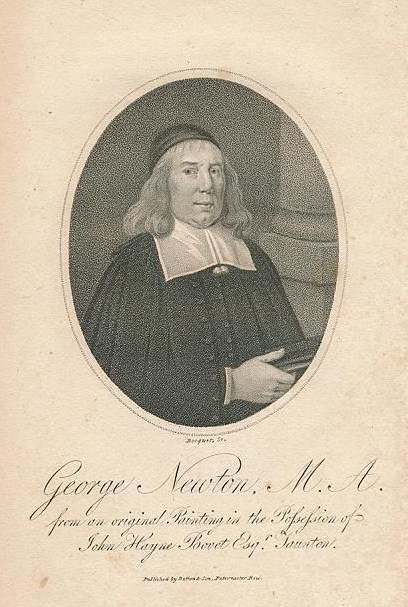 Portrait of George Newton (1602–1681), English ejected minister.